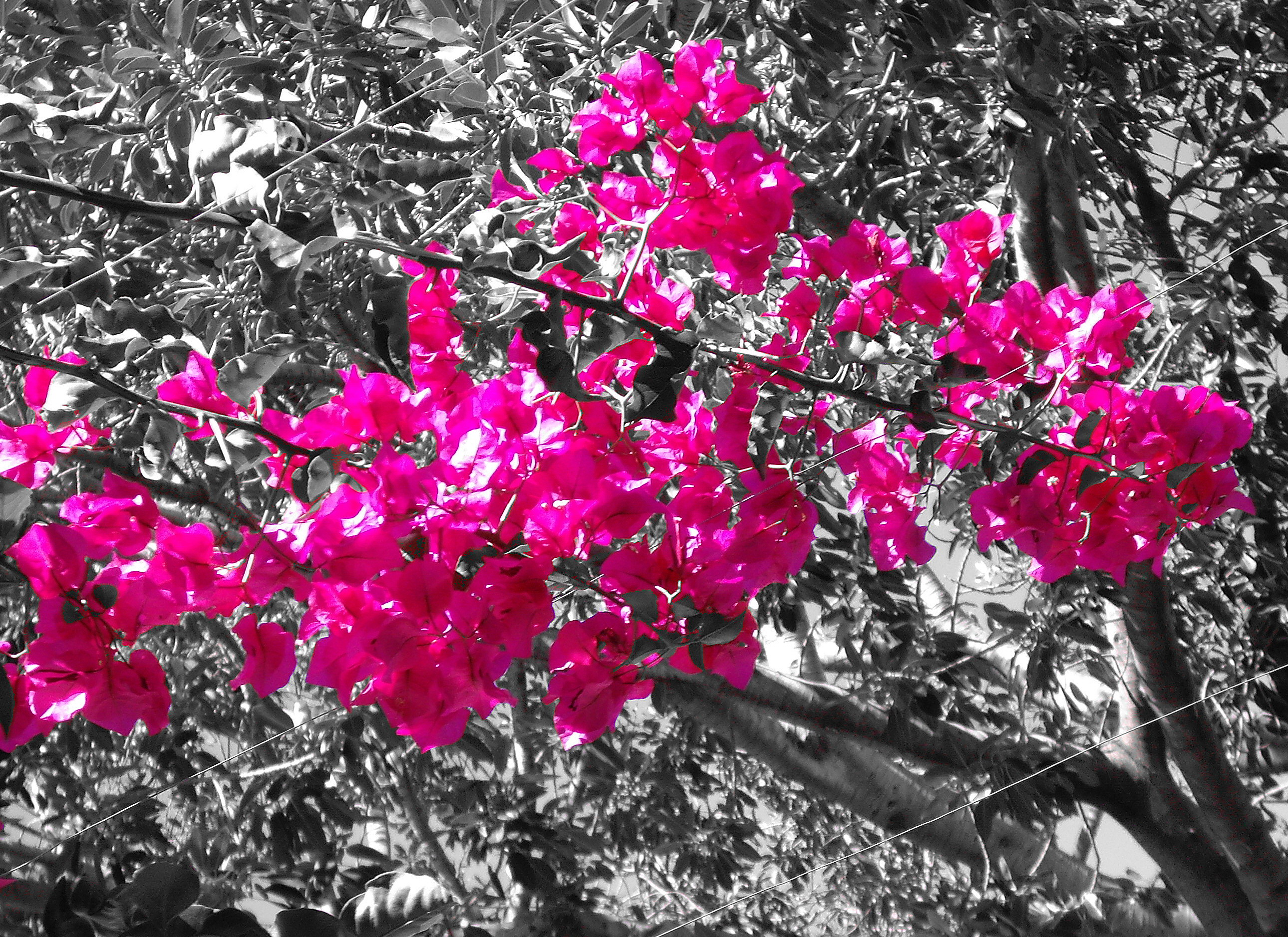 Photograph taken by VirtualSteve. Full catalogue of all my images uploaded to Wikipedia available here Images. A simple filter has been used to remove the other colours from the photo but the pink is a natural colour found in this flower species (Bougainvillea)